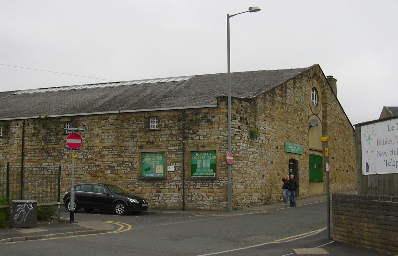 Burnley Snooker Club, Bank Parade, Burnley